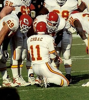 Grbac huddling with the Chiefs